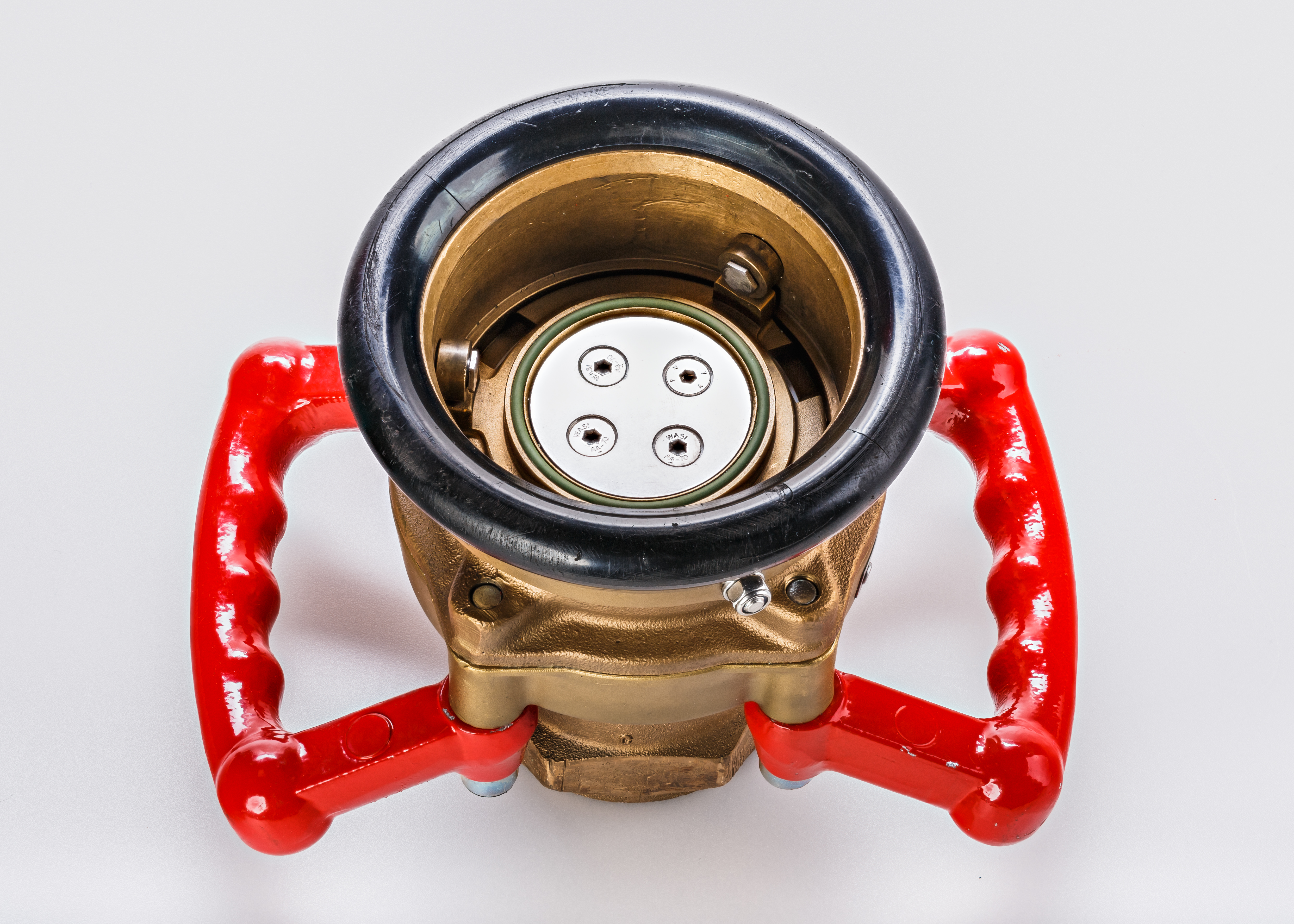 A TODO-MATIC 2,5" Dry-Break, a TÜV approved fitting for road tanker for virtually zero spillage use. TODO is a company of EMCO WHEATON. (Plate inscription: TODO Part No. 5332C-2407; Year 2006; PS 10 bar; TS -20°C +80°C, TÜ AGG 162-93 / ID No 82835) Focus stacking of 9 pictures.